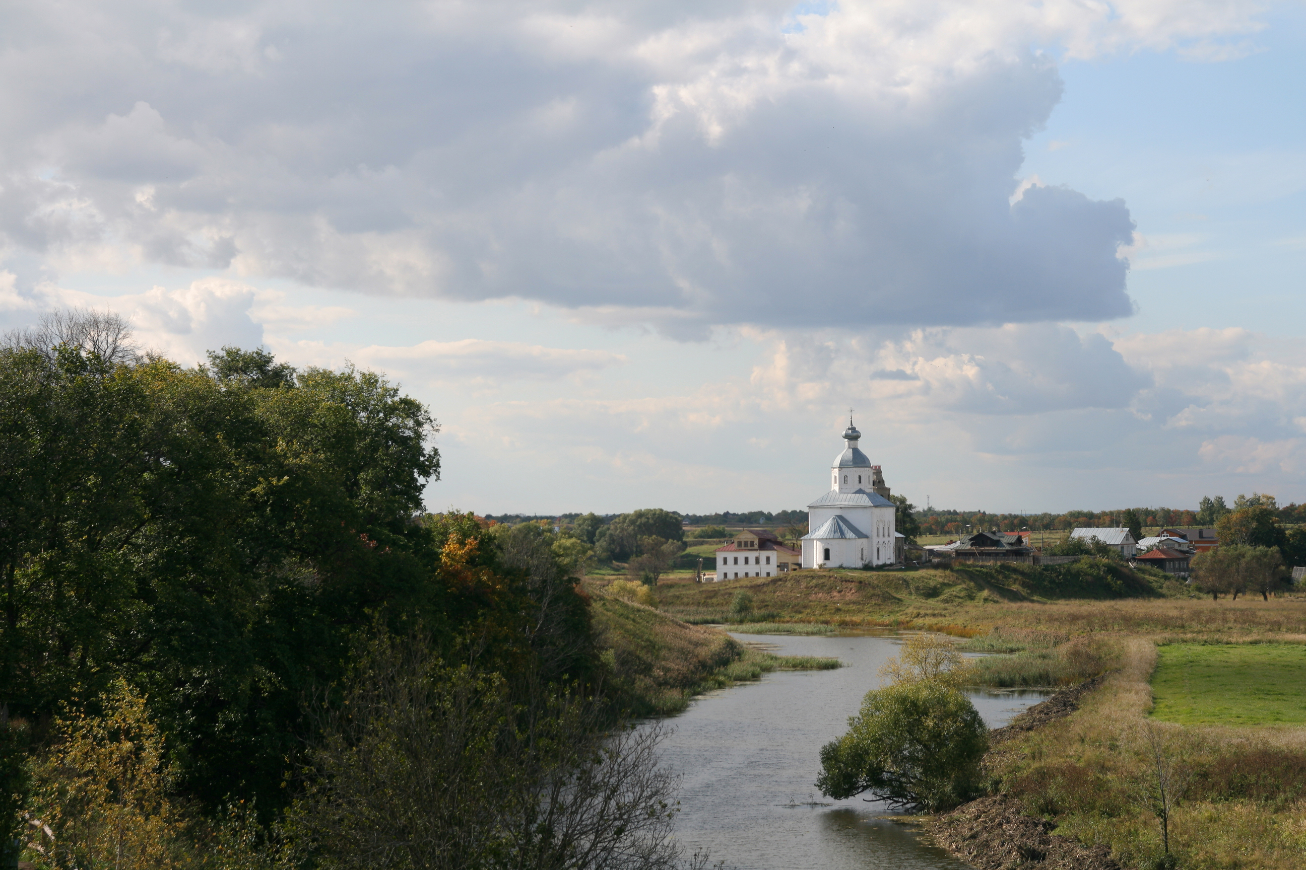 Church of Elijah the Prophet, Suzdal, 1758